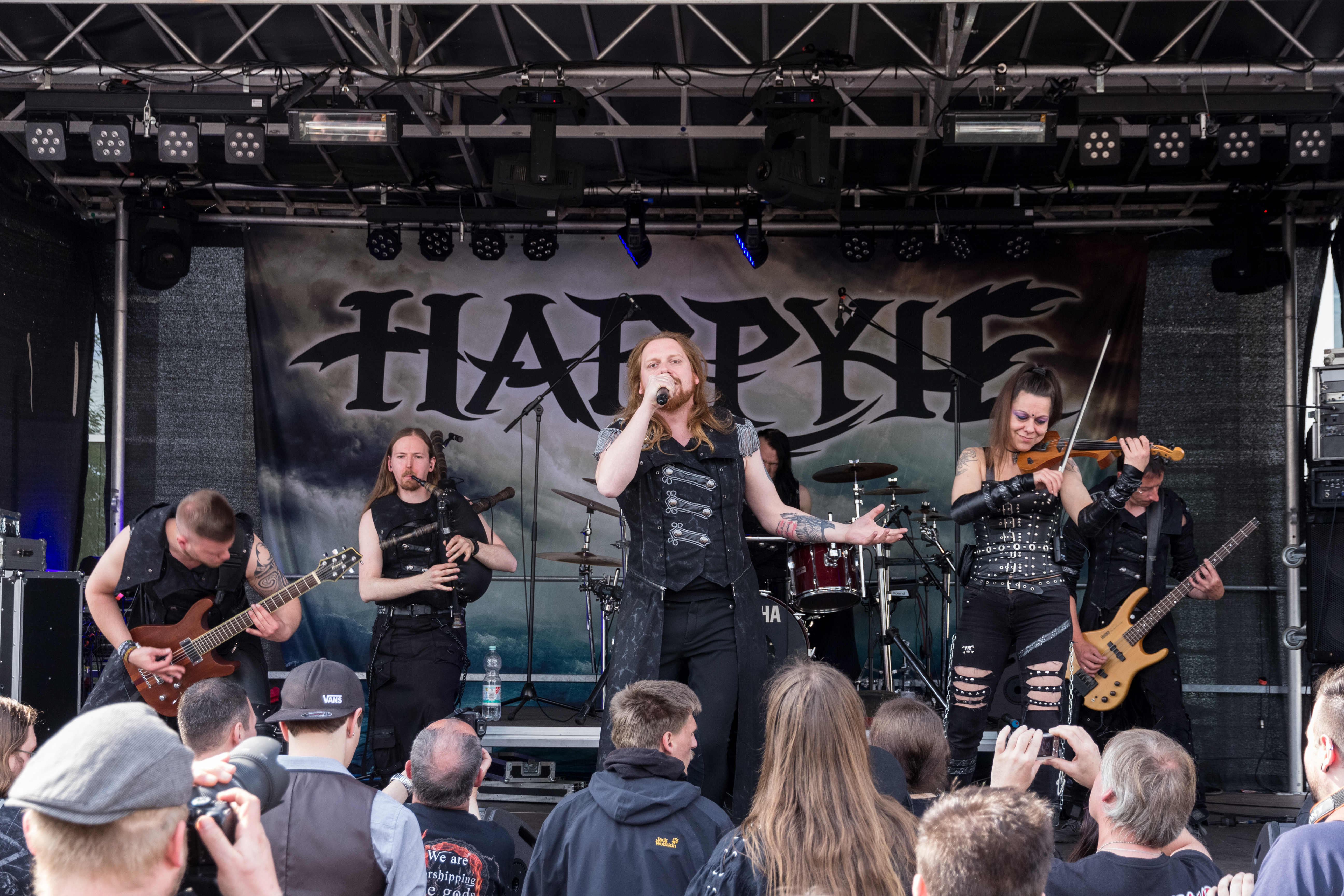 Harpyie - RPC 2015